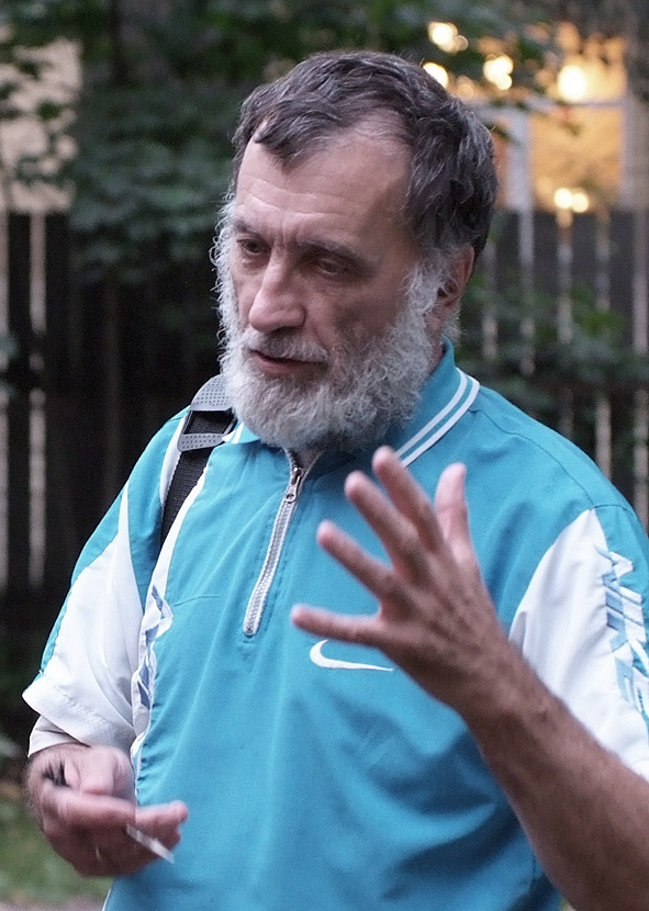 Boris Ostanin